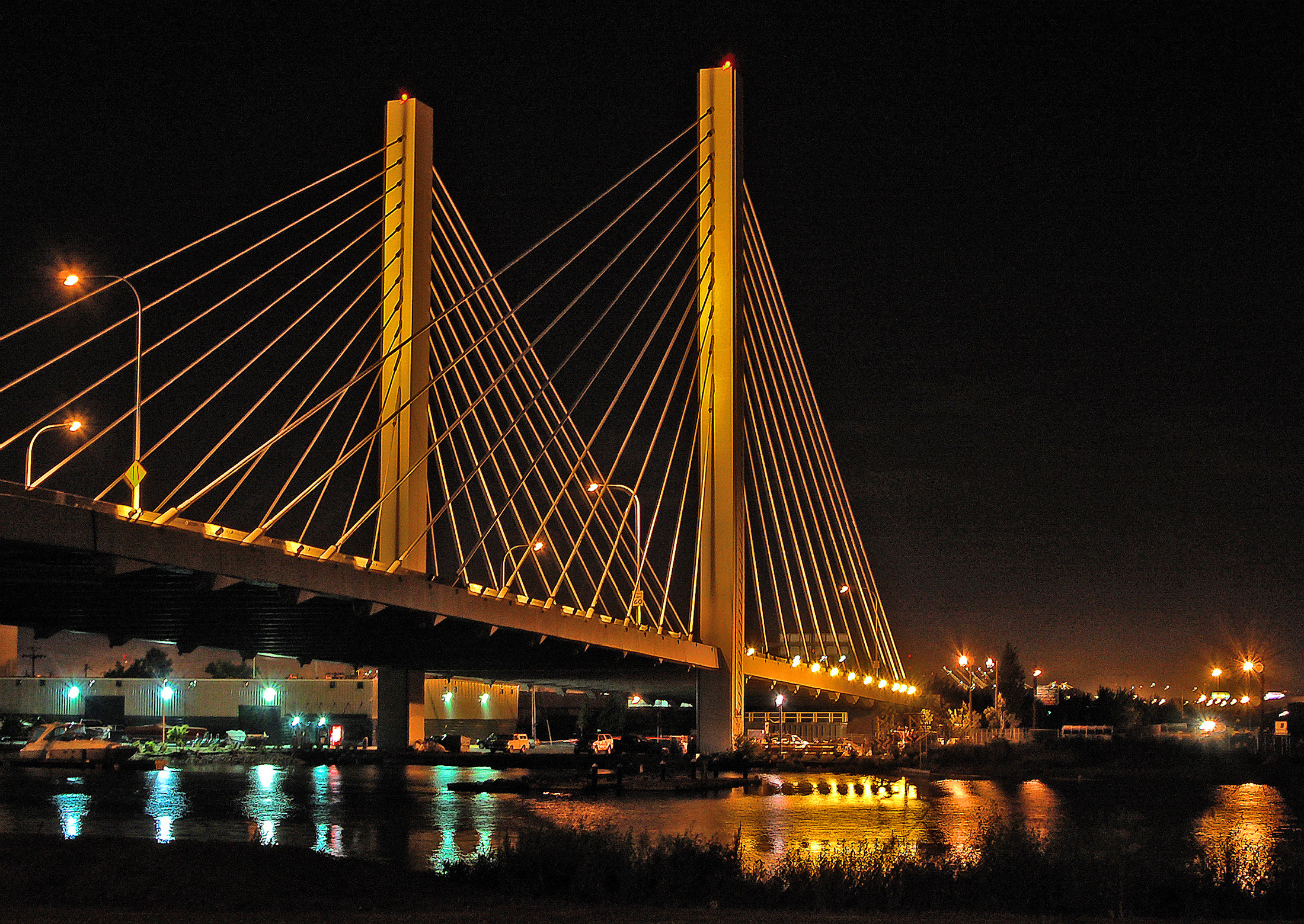 Tacoma, Washington 21'st Street bridge at night.